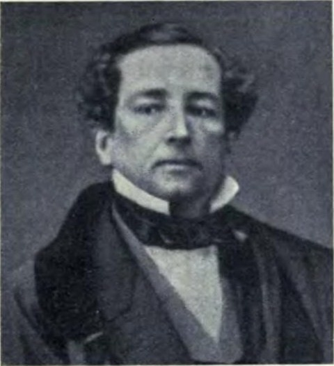 Swedish actor Oscar Andersson (1813-1866). Image from Nils Personne: Svenska Teatern VIII (1927).